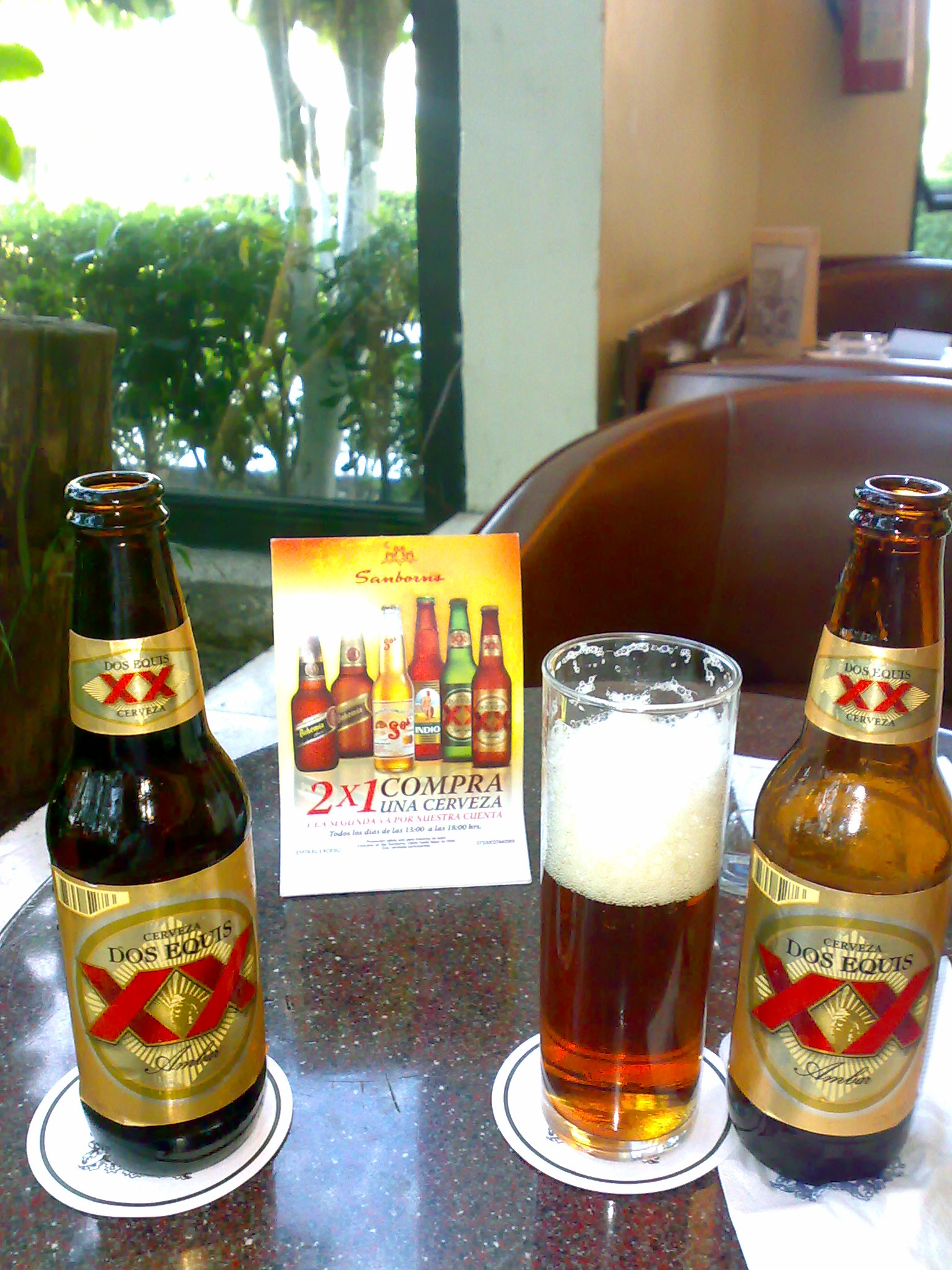 XX beer. Picture taken by me.